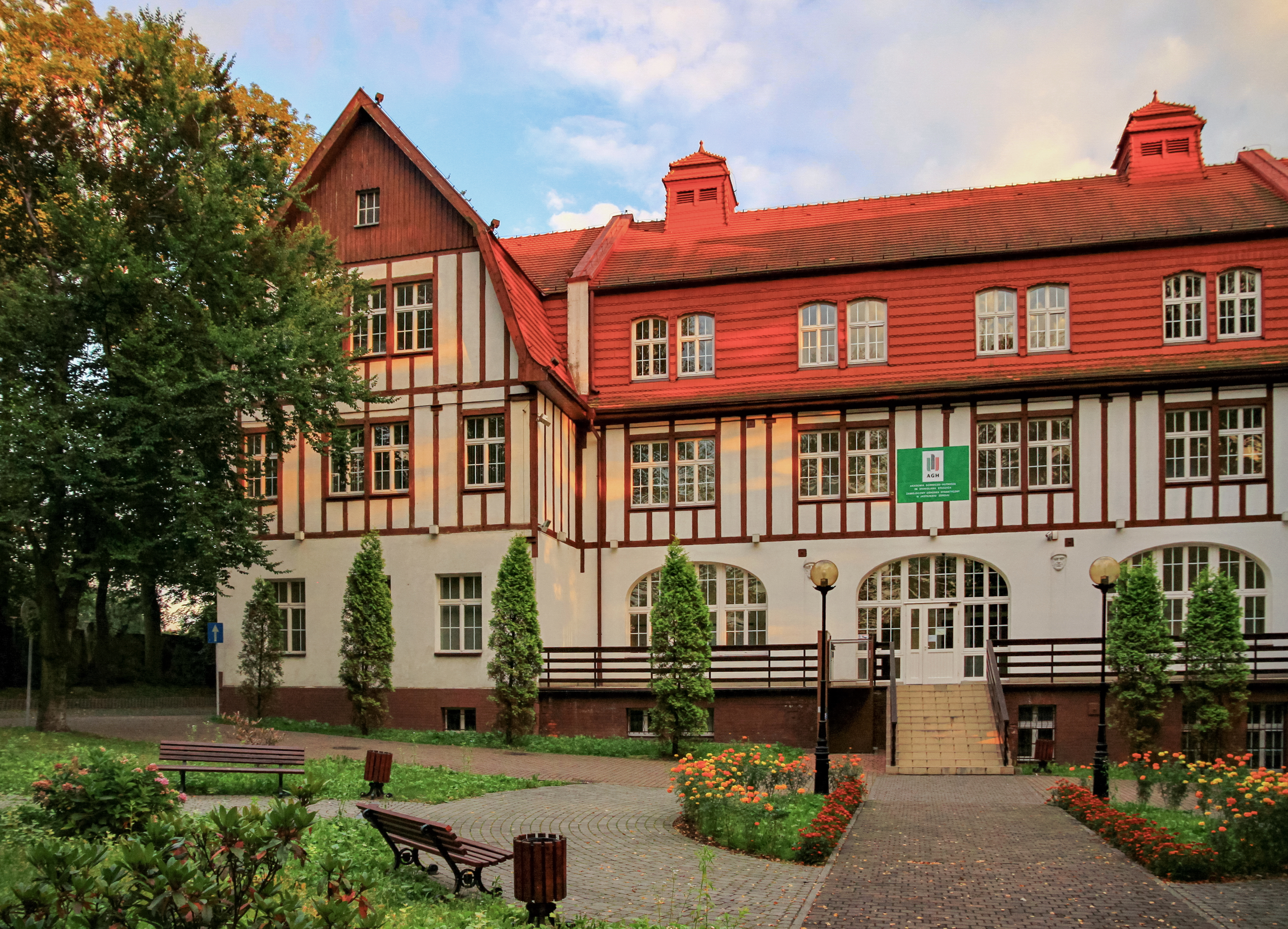 Former Bracka Company Sanatorium. Jastrzębie-Zdrój, Silesian Voivodeship, Poland.